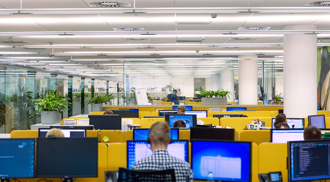 Tinkoff Bank office in Moscow